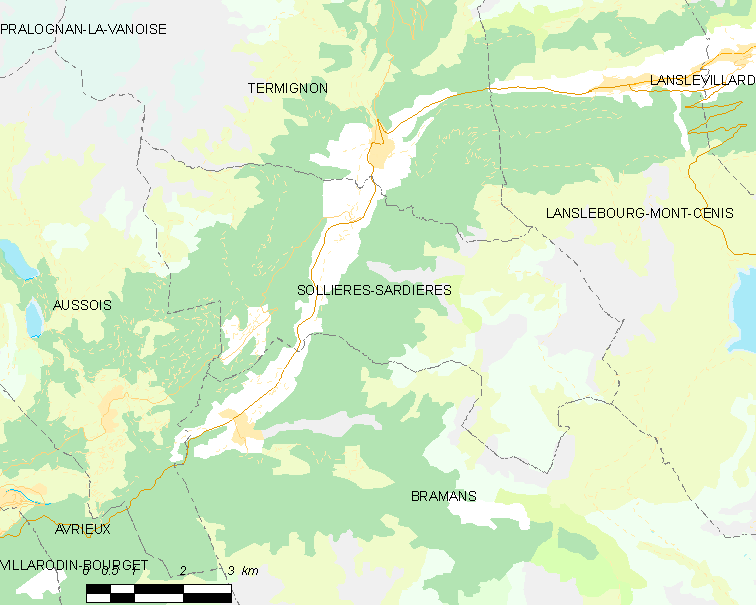 Map of French municipality Sollières-Sardières